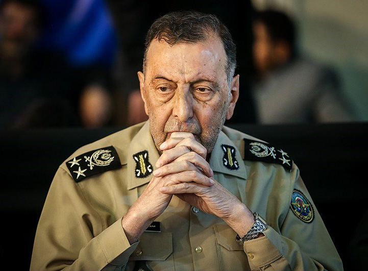 Commander in Chief Mohammad Salimi, former defence minister of Iran.